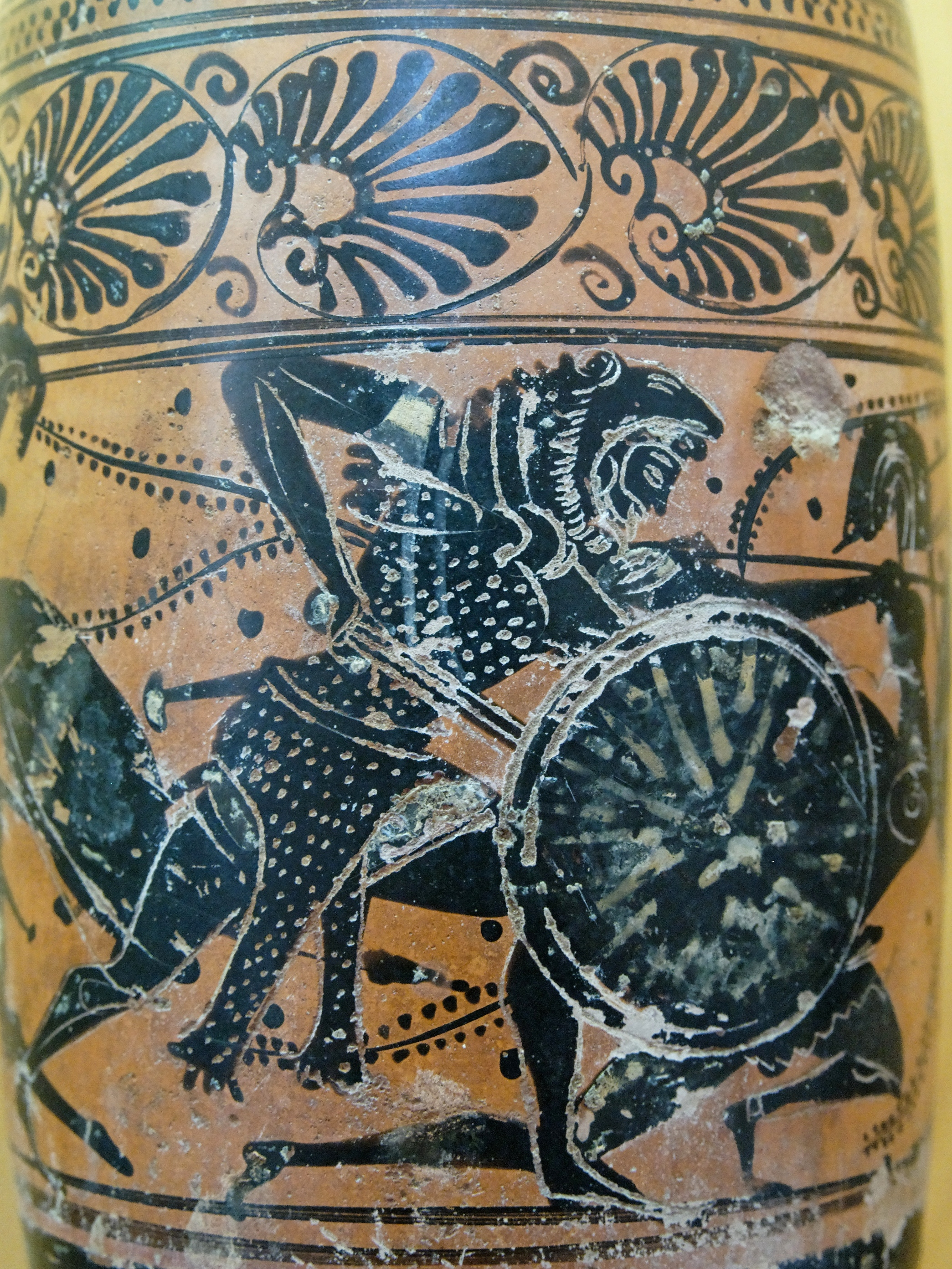 Herakles fighting the Amazons. Attic black-figure lekythos, early 5th century BC. From Gela.